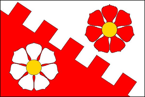 Municipal flag of Květnice , District Prague East, Czech Republic